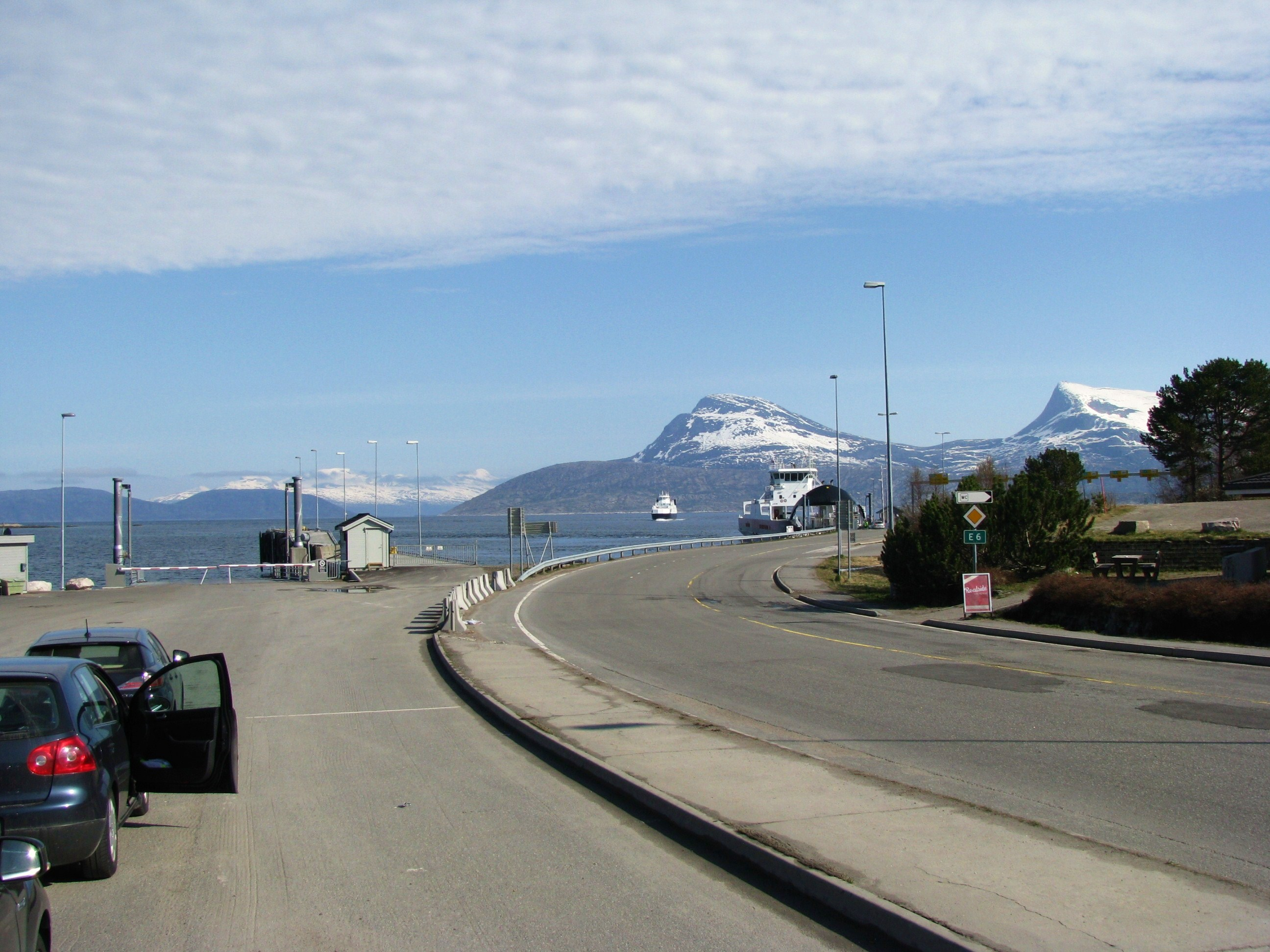 The ferry crossing Tysfjord at Bognes, E6 road. One ferry goes to Lødingen (towards Lofoten), the other goes to Skarberget south of Narvik. Tysfjord municipality, Nordland, Norway. This is 200 km north of the Arctic Circle. May 2011.